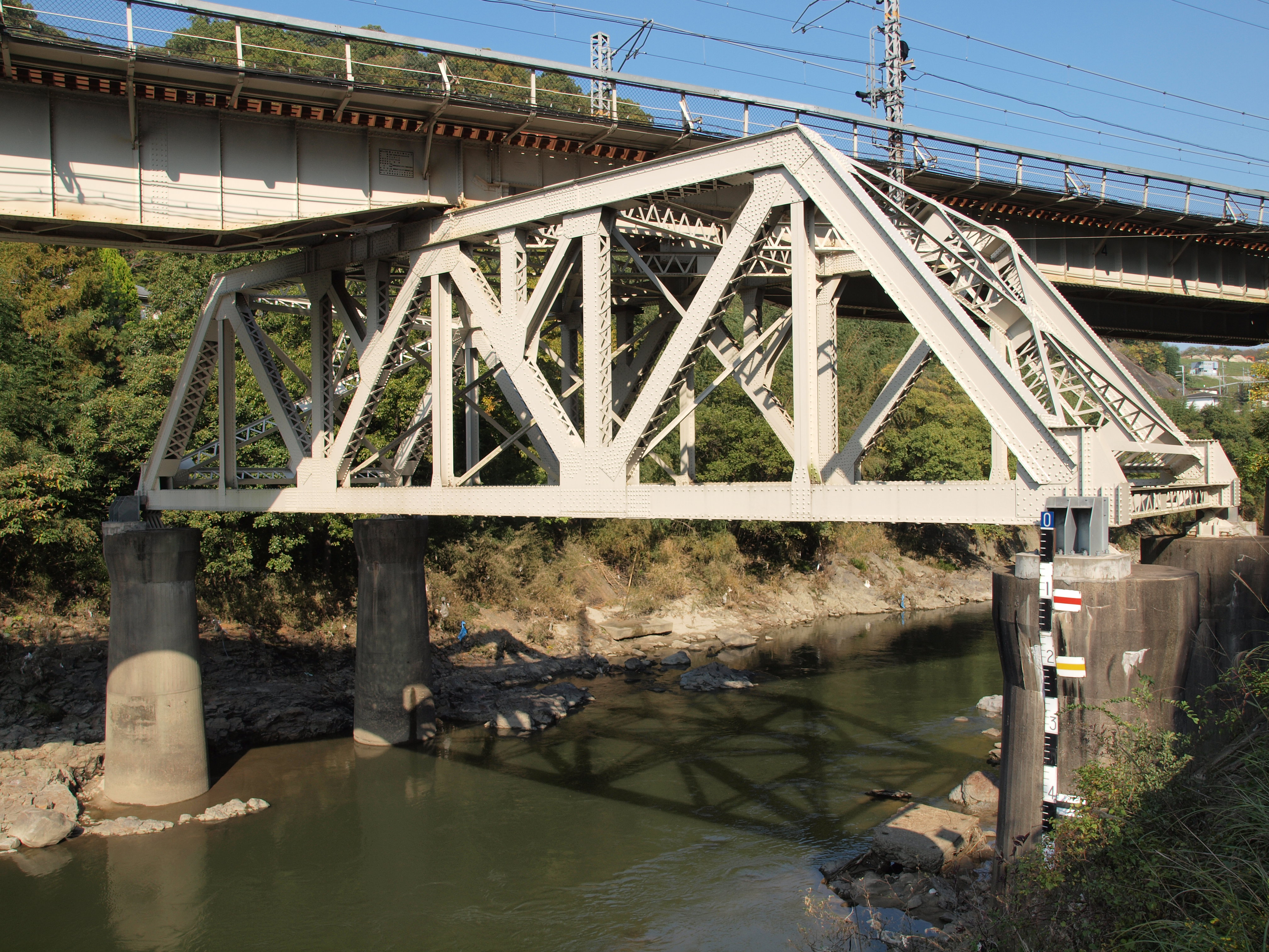 Dai-yon Yamatogawa kyoryo (No.4 Yamatogawa railway bridge), Kashiwara, Osaka